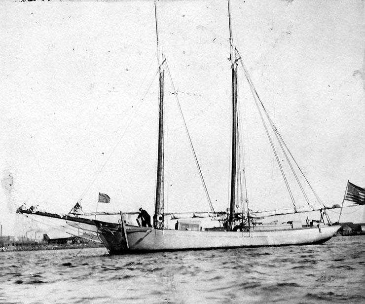 The United States Navy patrol vessel at anchor soon after her commissioning.